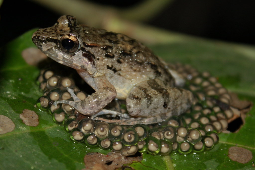 Found next to the Loboc river on Bohol. Thanks to Arvin Diesmos for the identification.